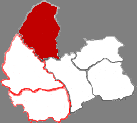 Location of Youyu county in Shuozhou City, China